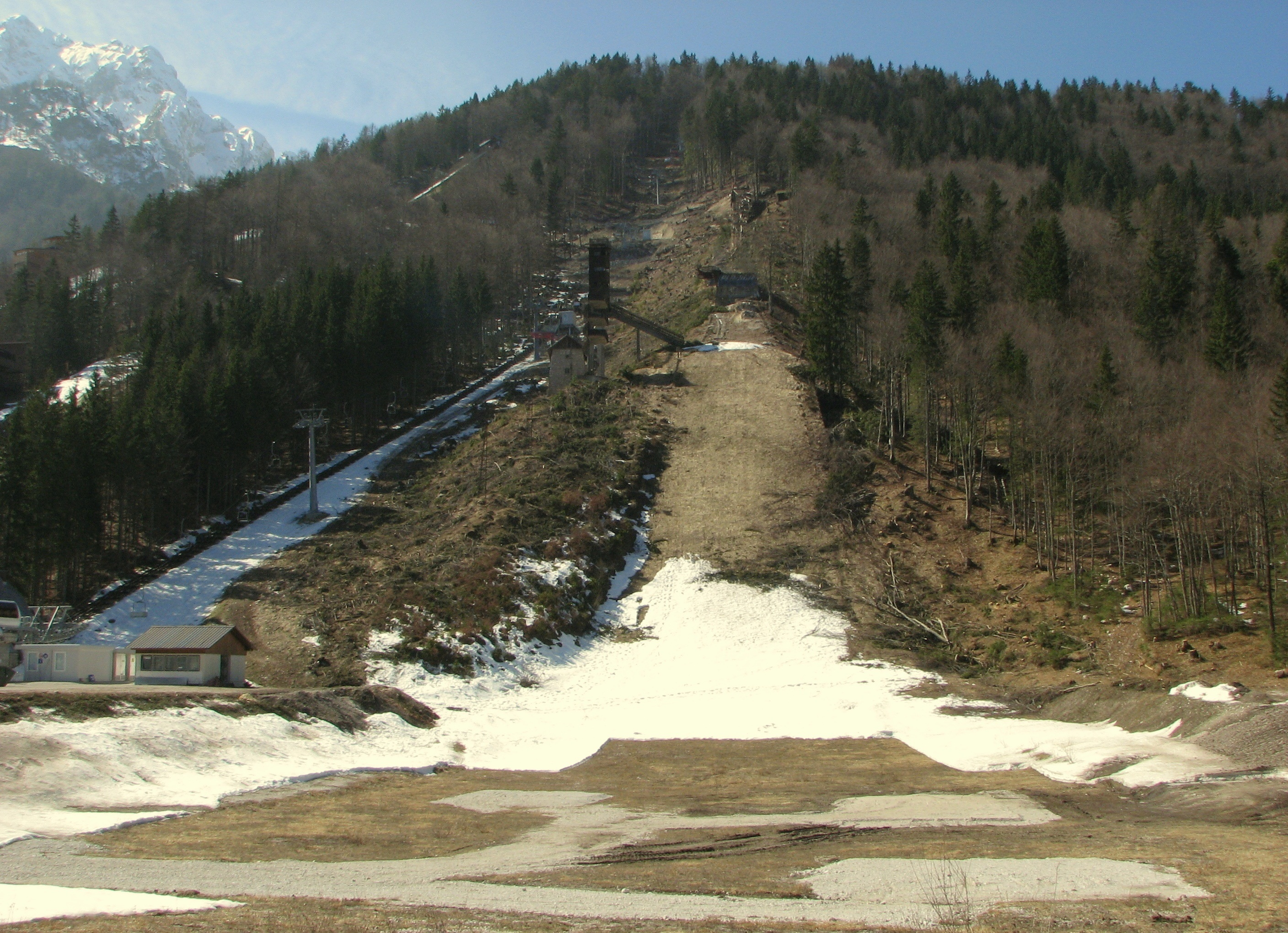 Leta 2001 podrta Bloudkova velikanka